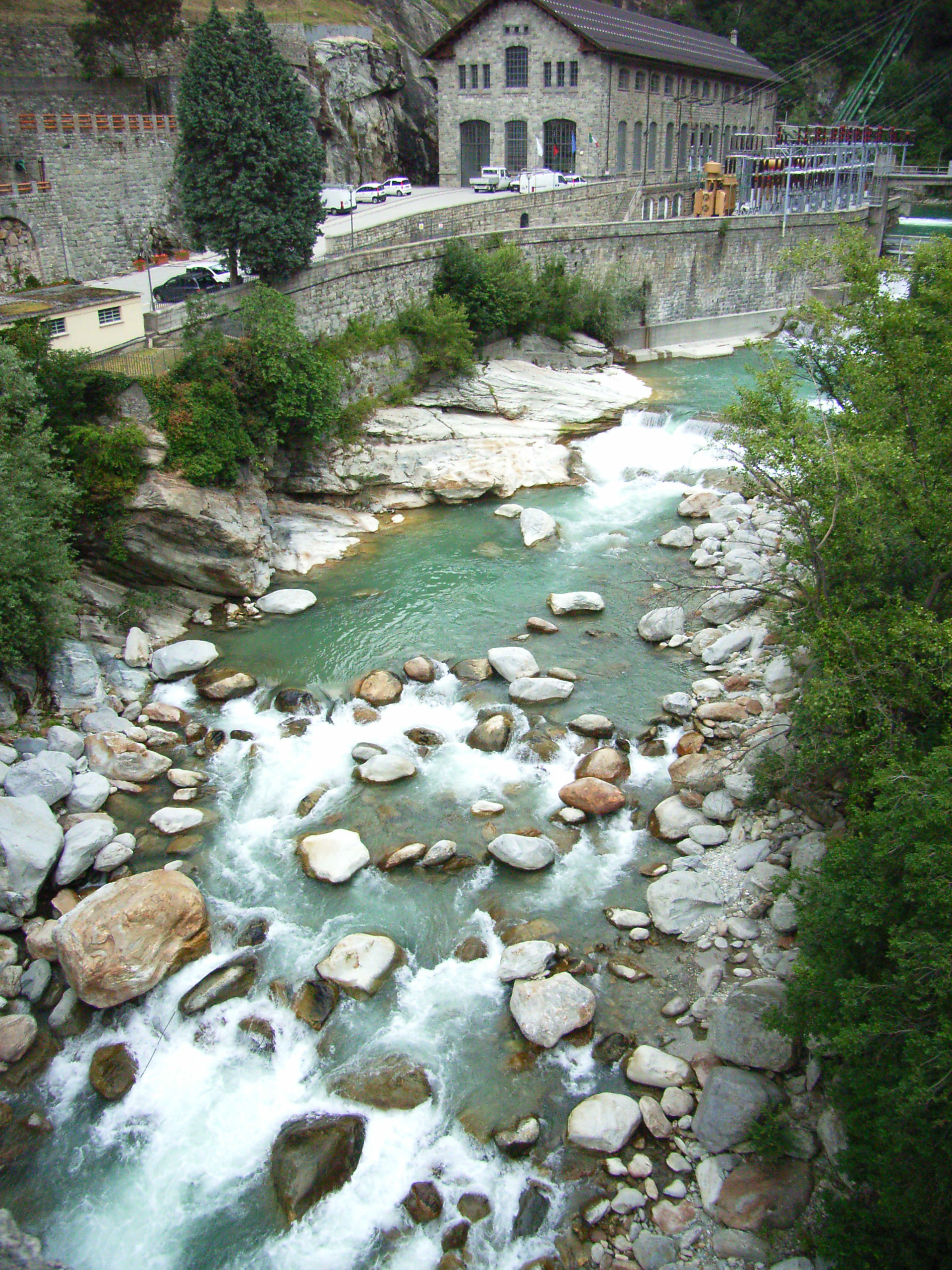 Gressoney Valley / Val di Gressoney, Lys river in Pont-Saint-Martin (Aoste Region, Italy)